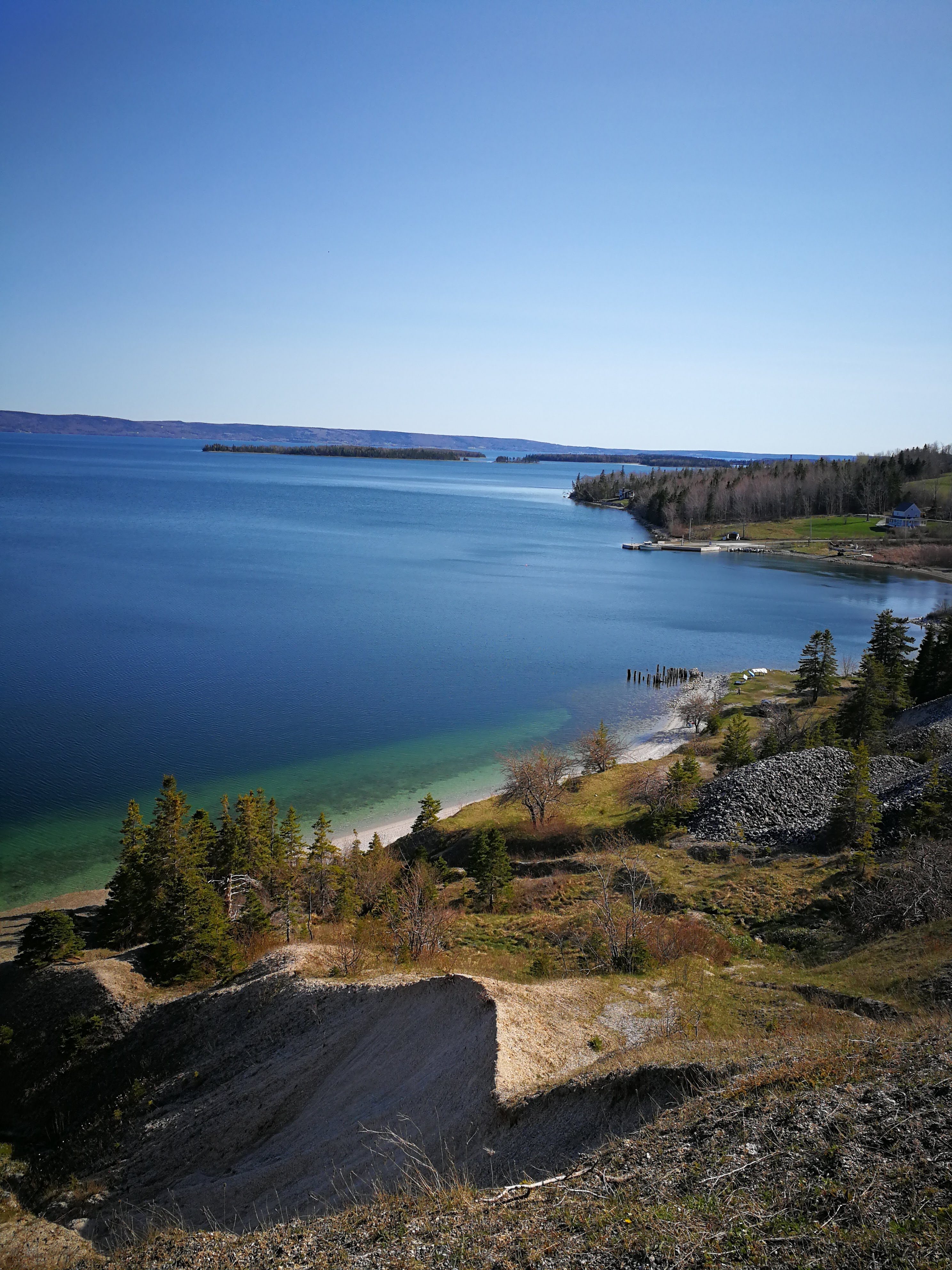 Marble Mountain look off